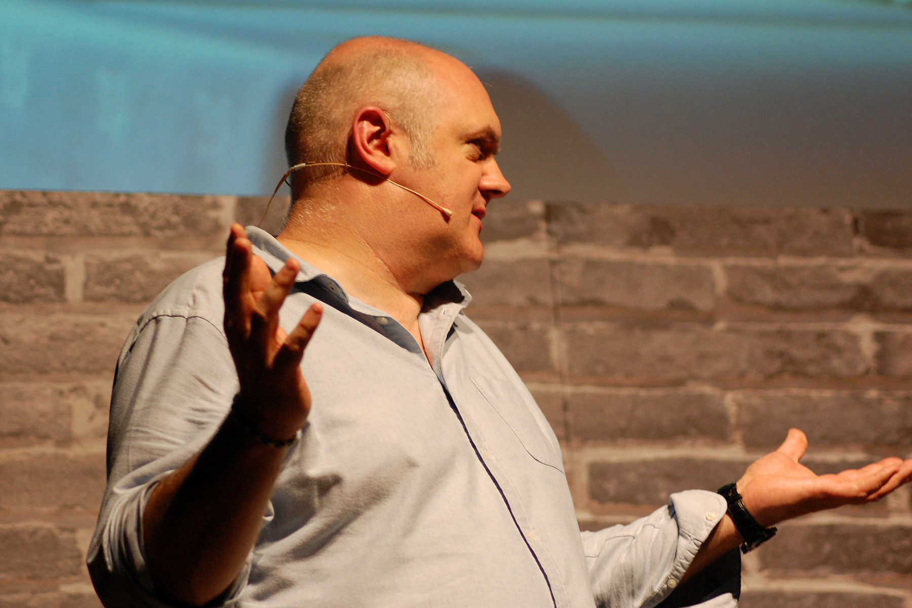 Dara Ó Briain at the Festival of Curiosity in Dublin, 2014.